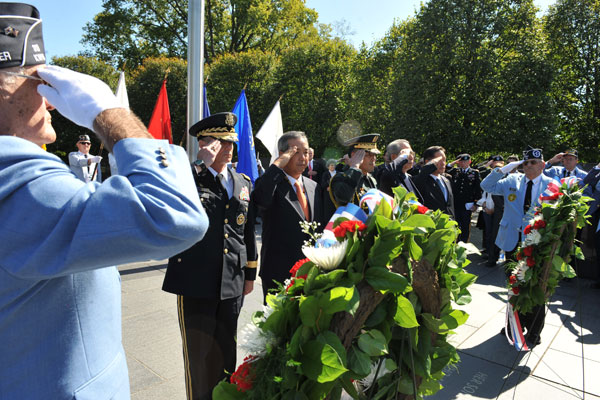 U.S. Forces Korea Commander Gen. Walter L. Sharp (second from the left) joins with American Soldiers and Korean War veterans to honor fallen comrades from Korean War at a wreath laying ceremony in Washington, D.C., Oct. 5.